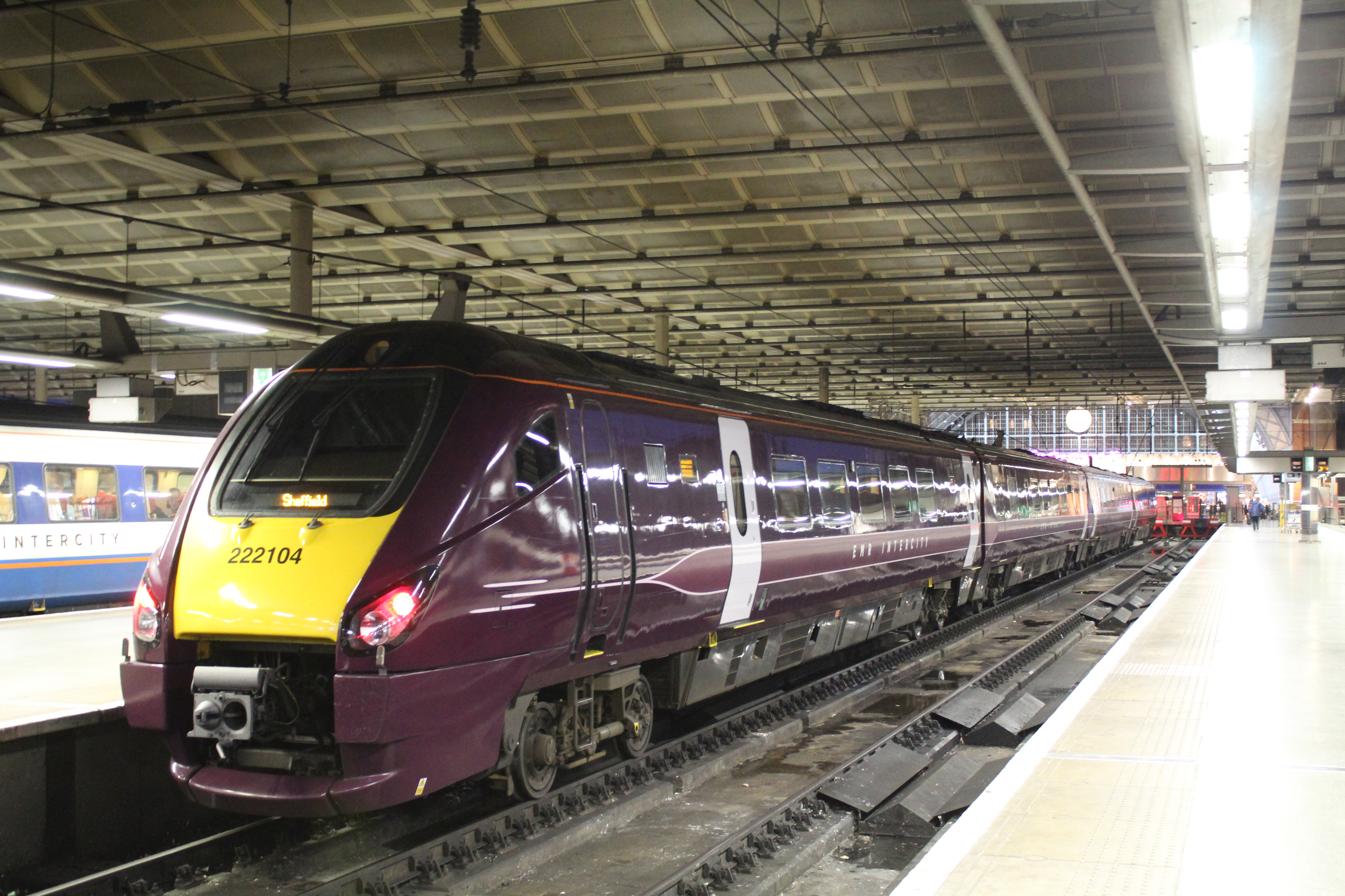 In the new EMR livery, 221104 is seen at London St Pancras having arrived from Corby. It now await to couple to 222013 to form a 9 coach train to Sheffield.